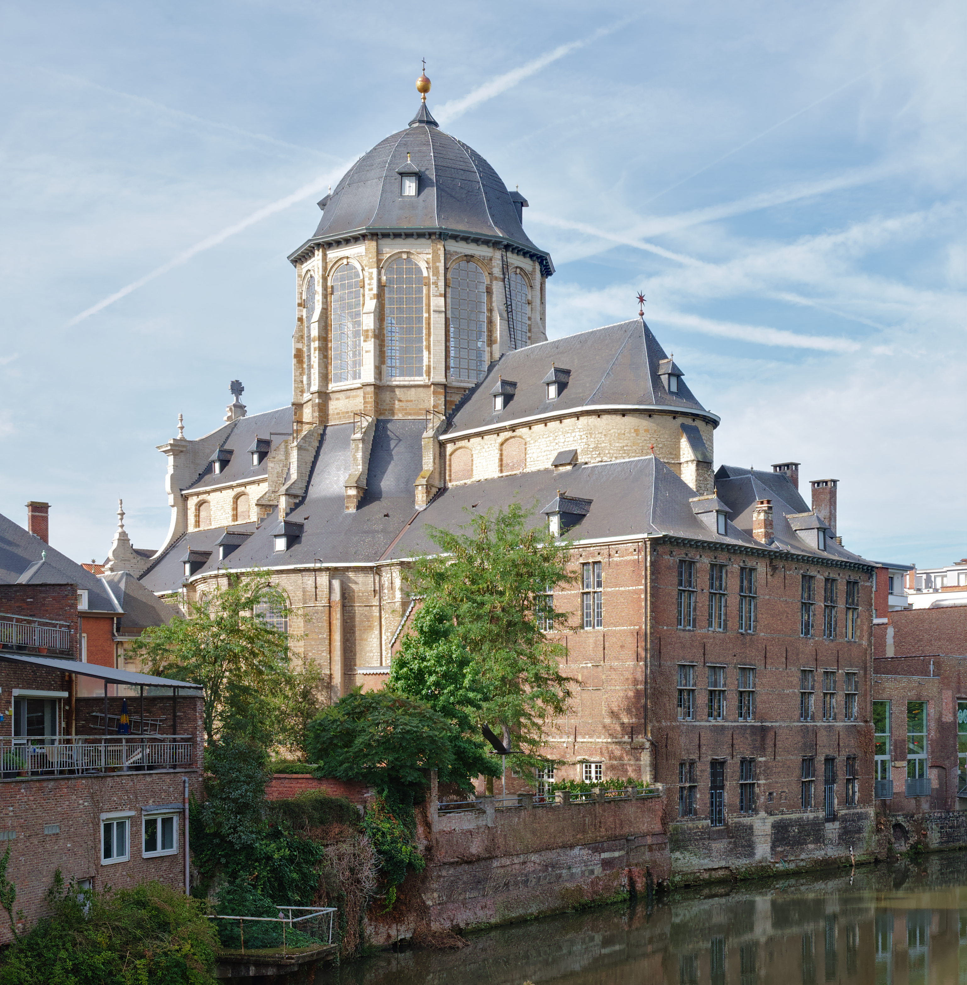 Basilica of Our Lady of Hanswijk and the Dijle in Mechelen, Belgium This photo of immovable heritage has been taken in the Flemish Region